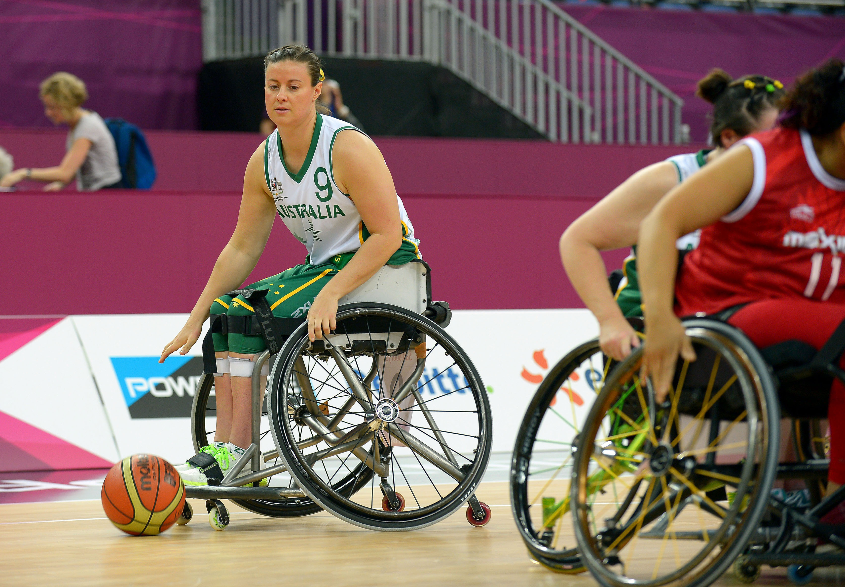 Photograph of Australian Paralympic team member Leanne Del Toso at the 2012 Summer Paralympic Games in London